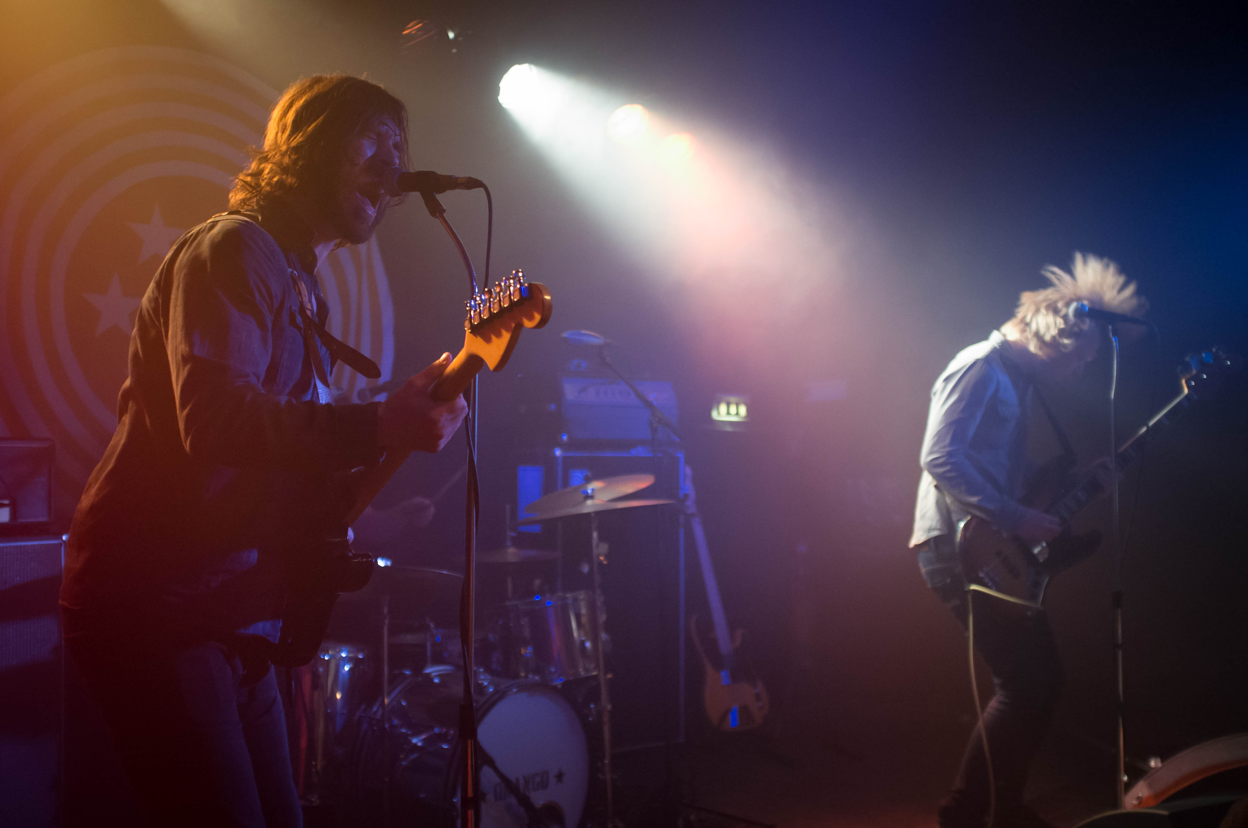 Orango at Total Slottsfjell Utested